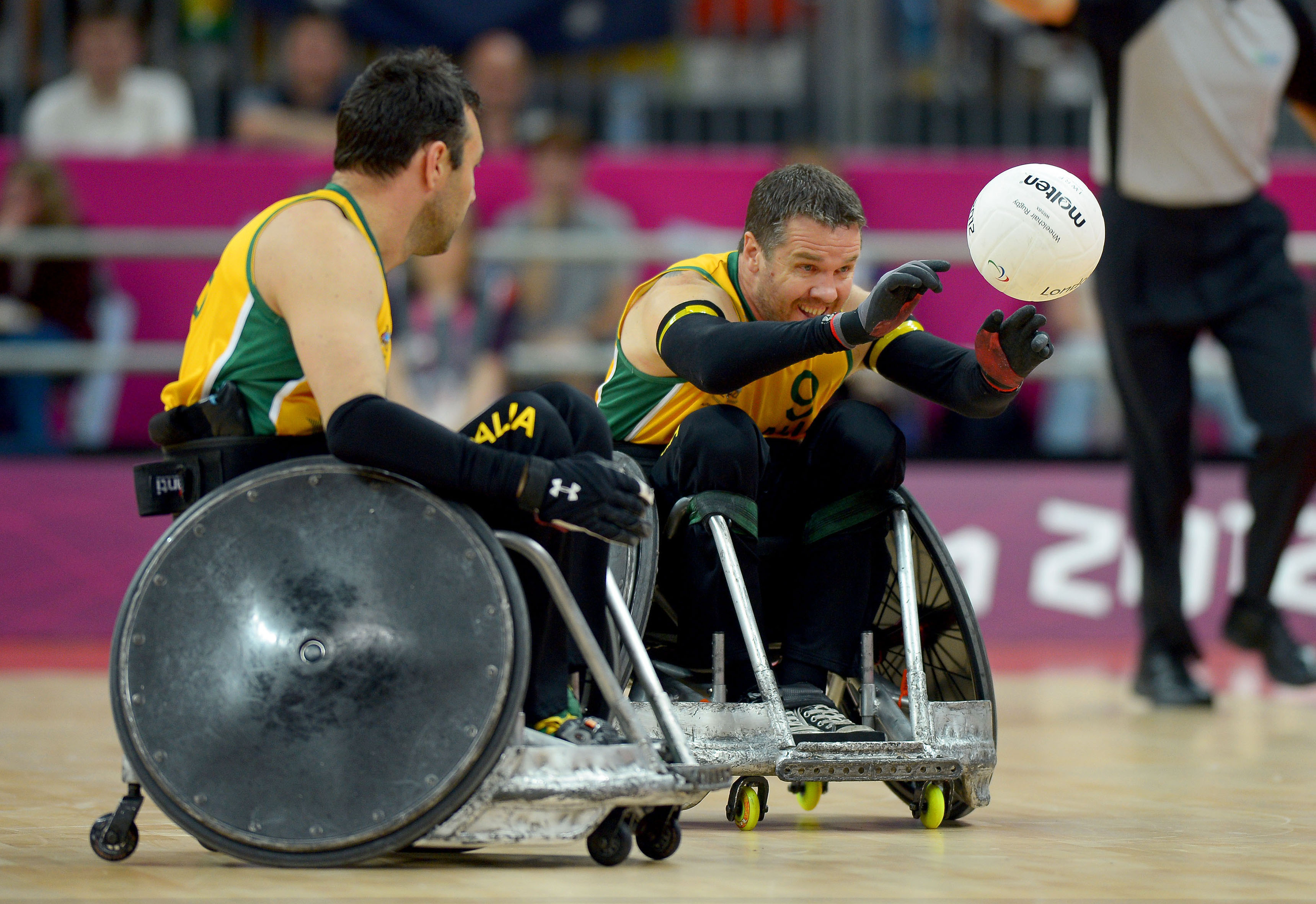 Photograph of Australian Paralympic team member Greg Smith at the 2012 Summer Paralympic Games in London